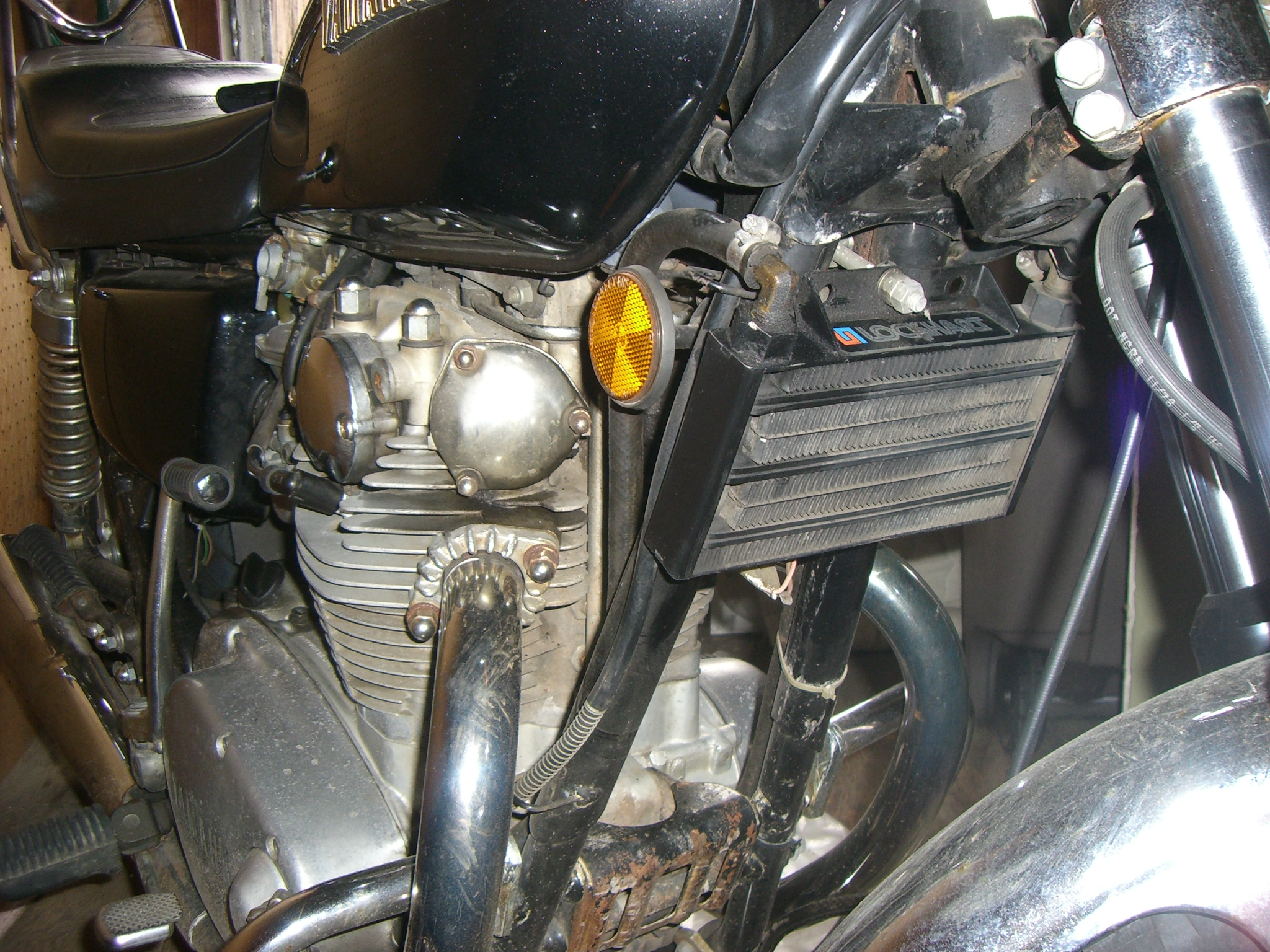 1979 Yamaha XS650 Oil cooler